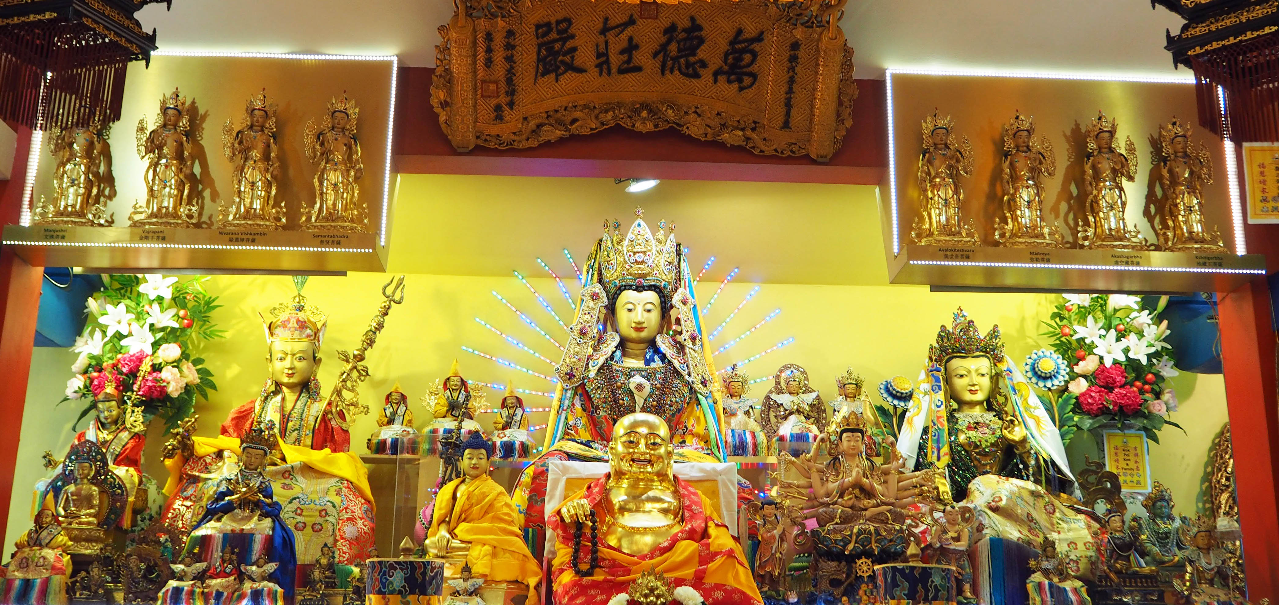 Jowo Buddha Statue (center), Guru Rinpoche (Right), & Green Tara (Left)